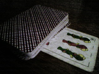 The position of the triunfo in the deck during a two player game of Tute